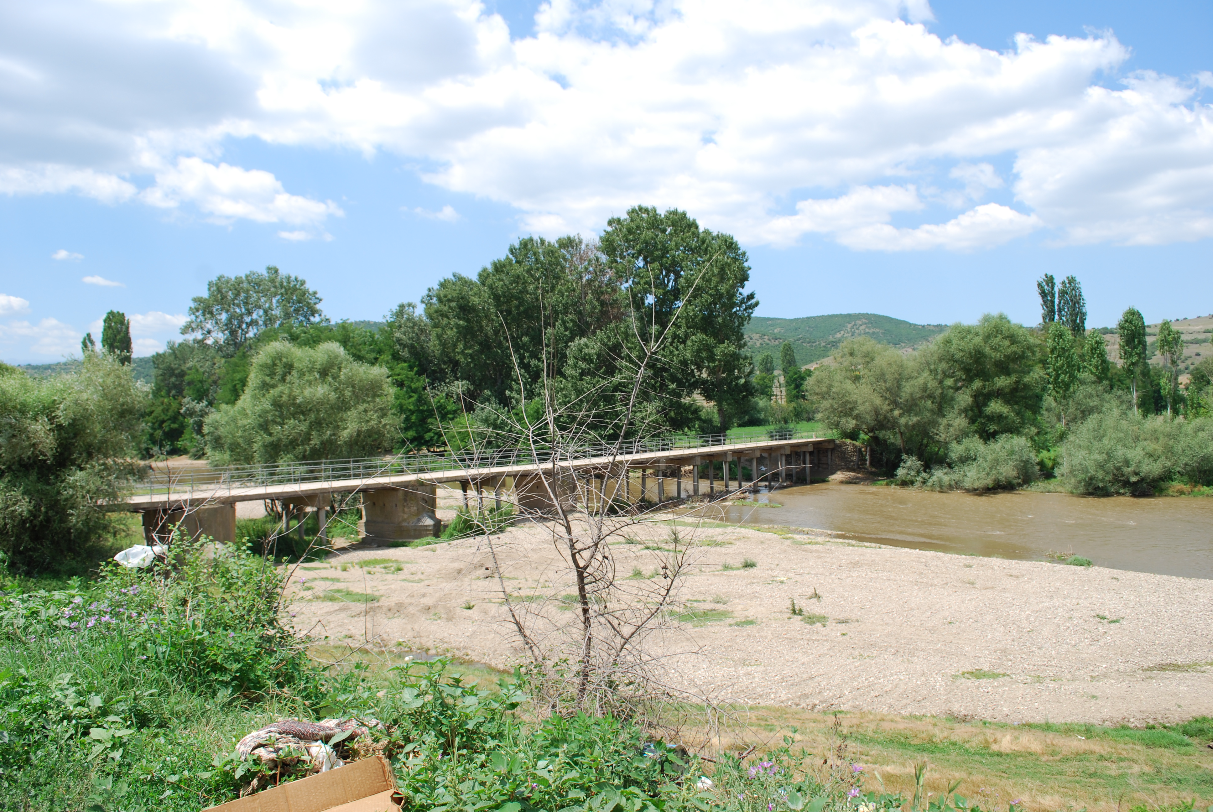 Pčinja River in Sredno Konjari, Skopje, Macedonia